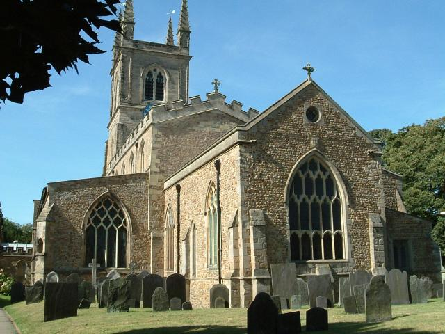 St Mary's parish church, Lutterworth, Leicestershire, seen from the east